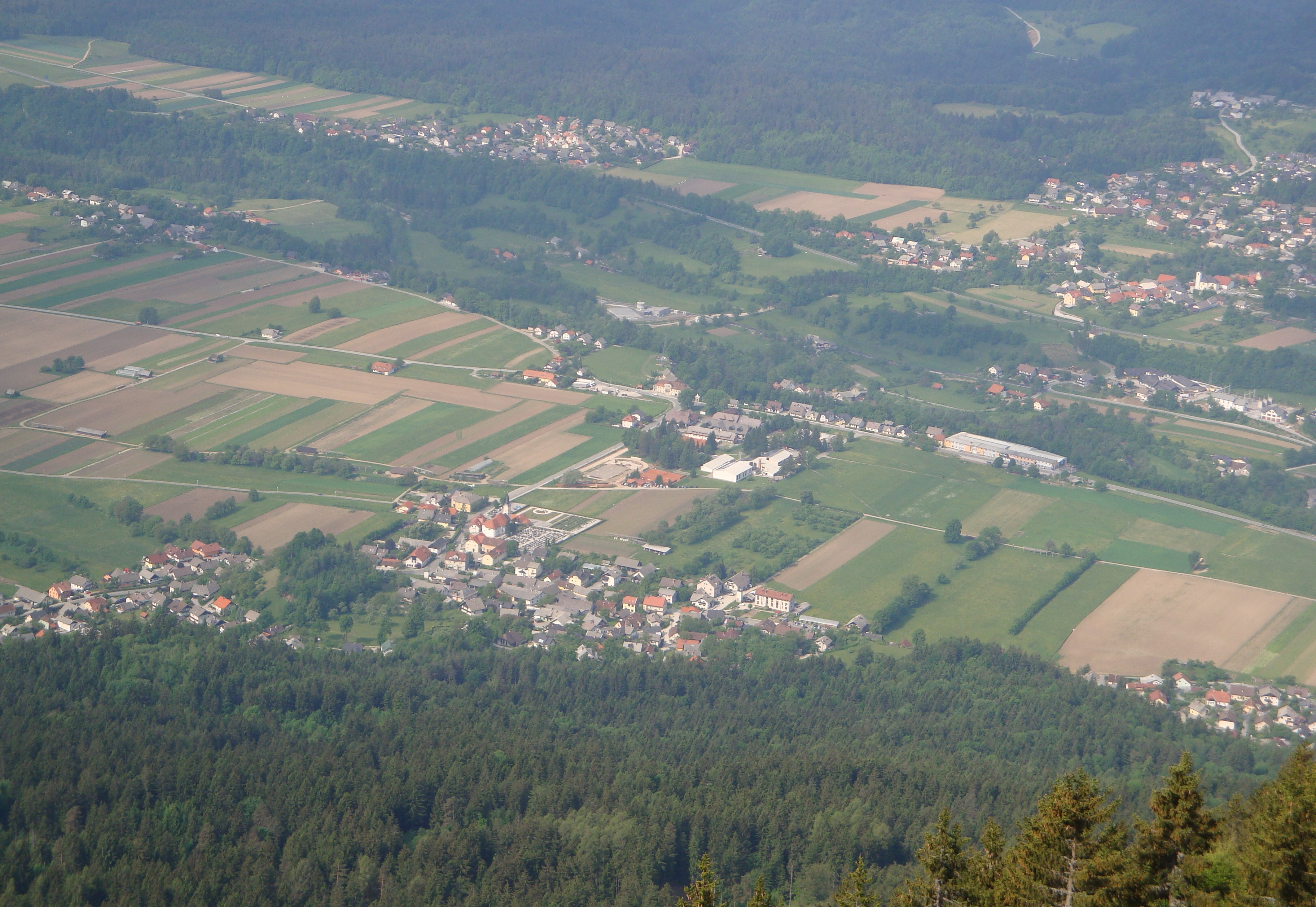 Križe near Tržič, Slovenia